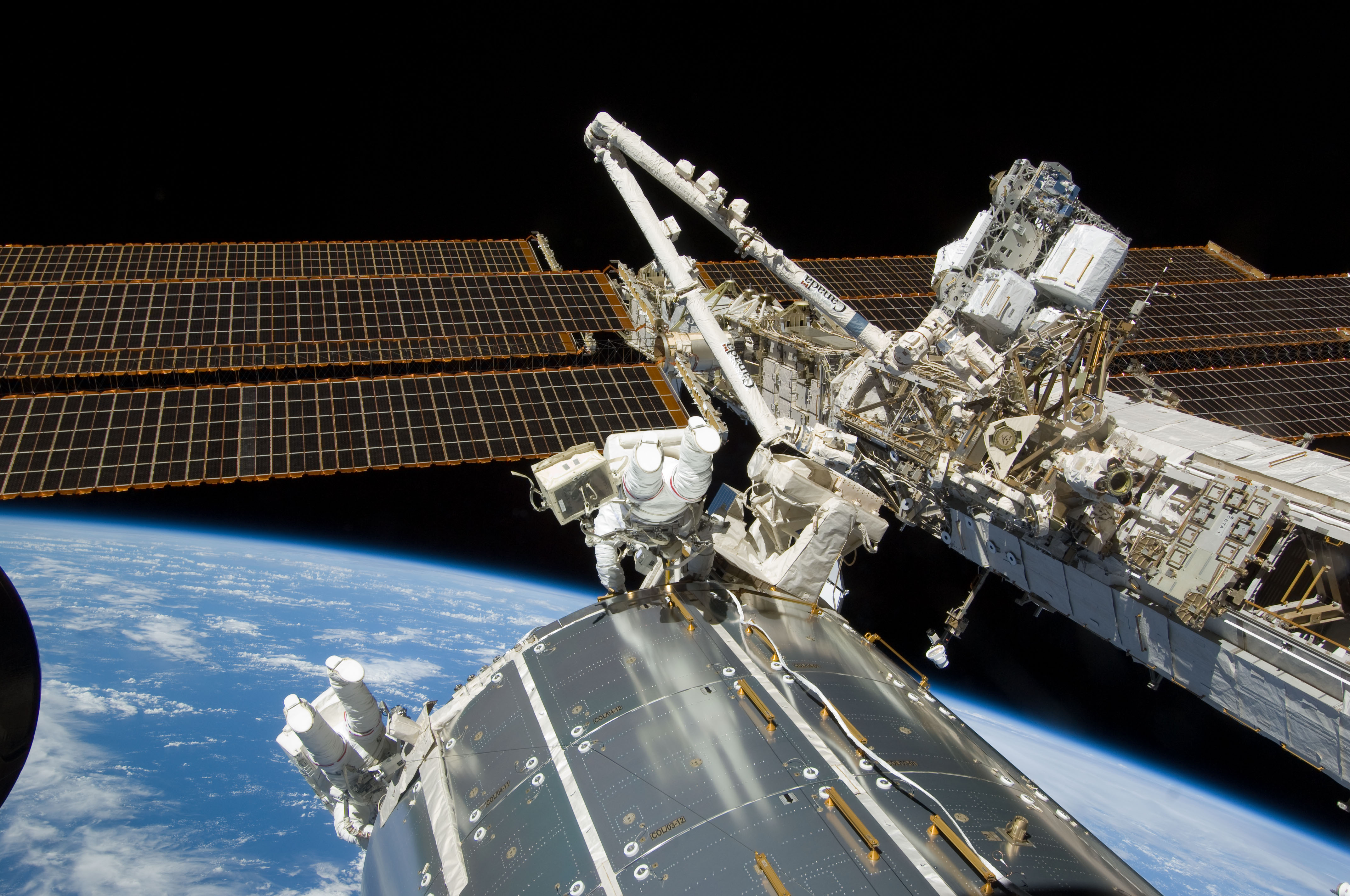 Backdropped against the horizon of Earth, astronauts Mike Foreman (center frame) and Randy Bresnik, STS-129 mission specialists, perform a series of tasks on the exterior of the International Space Station during the second space walk of Atlantis' visit to the orbital outpost.